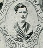 Portrait of IMARO member Mos. Penov from Radibush